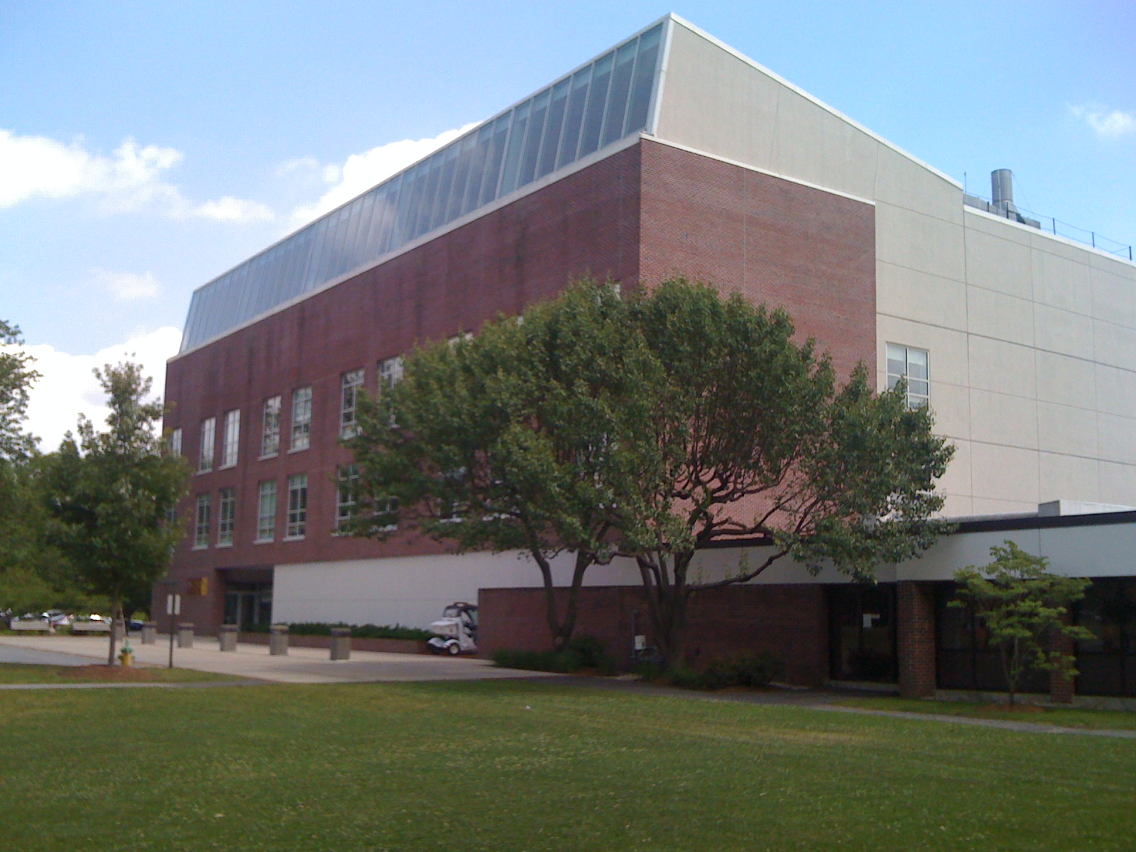 View of NYMC MEC